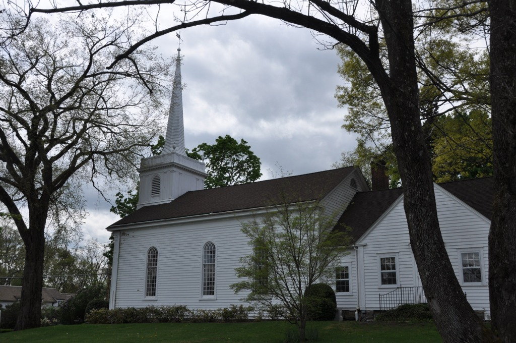 The Round Hill Congregational Church in Greenwich, Connecticut, part of the Round Hill Historic District.